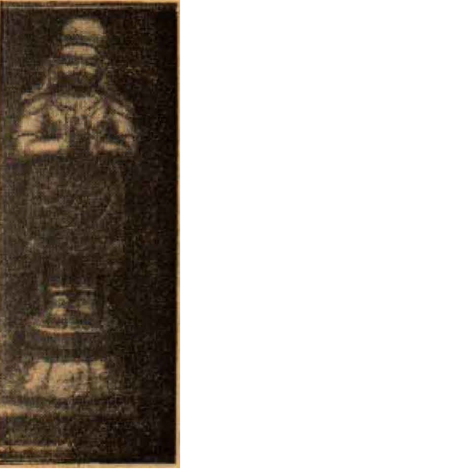 కారినాయనార్